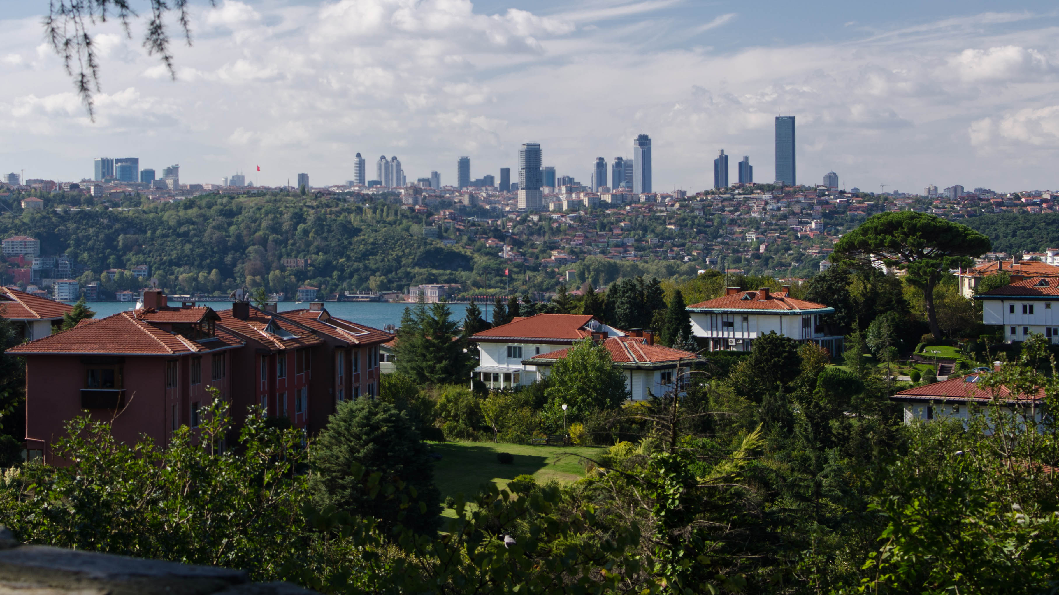 Istanbul Levent skyline from across Bosphorus.